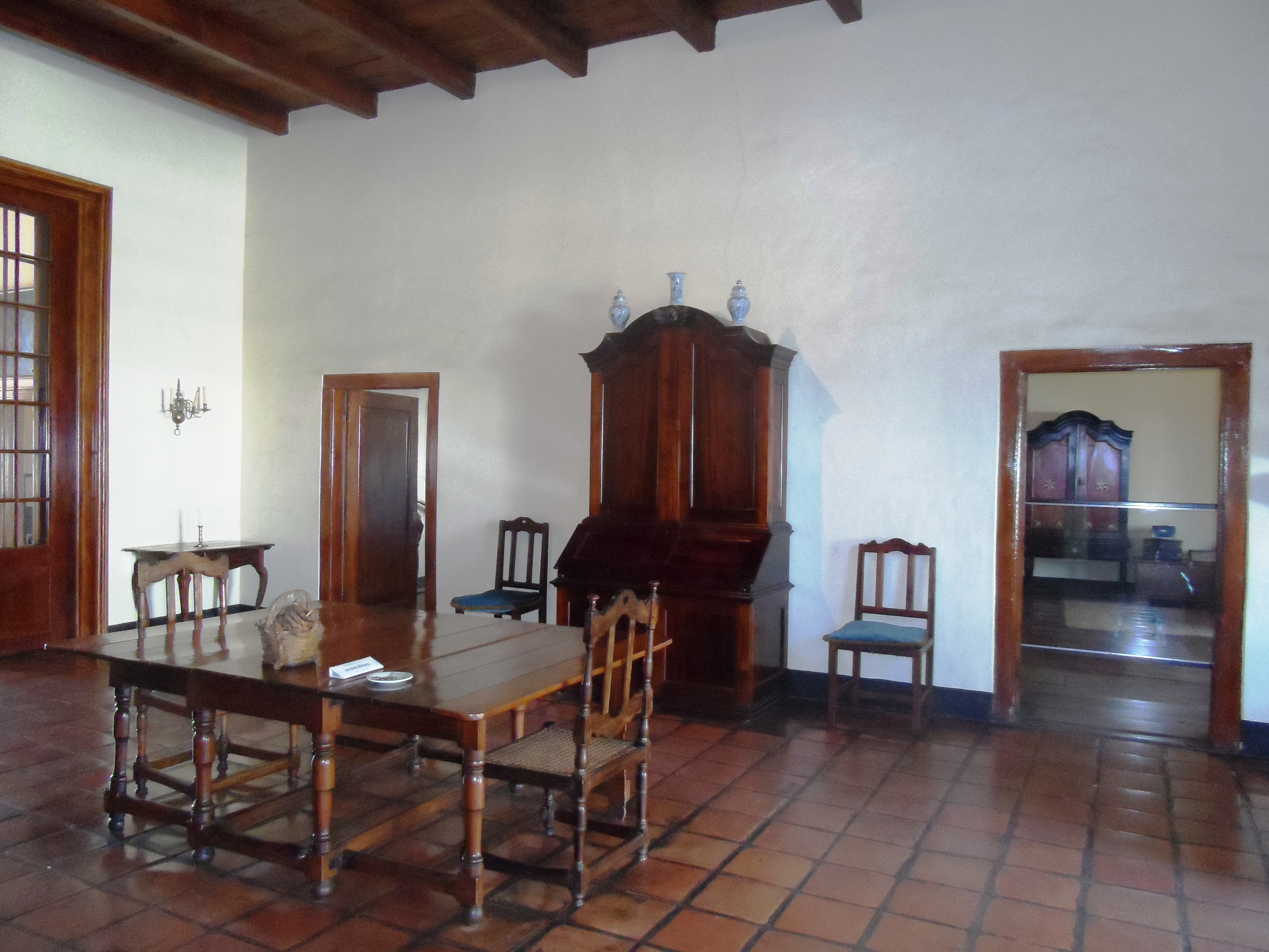 Bletterman House, Stellenbosch This media shows a South African Protected Site with SAHRA file reference 9/2/084/0050.